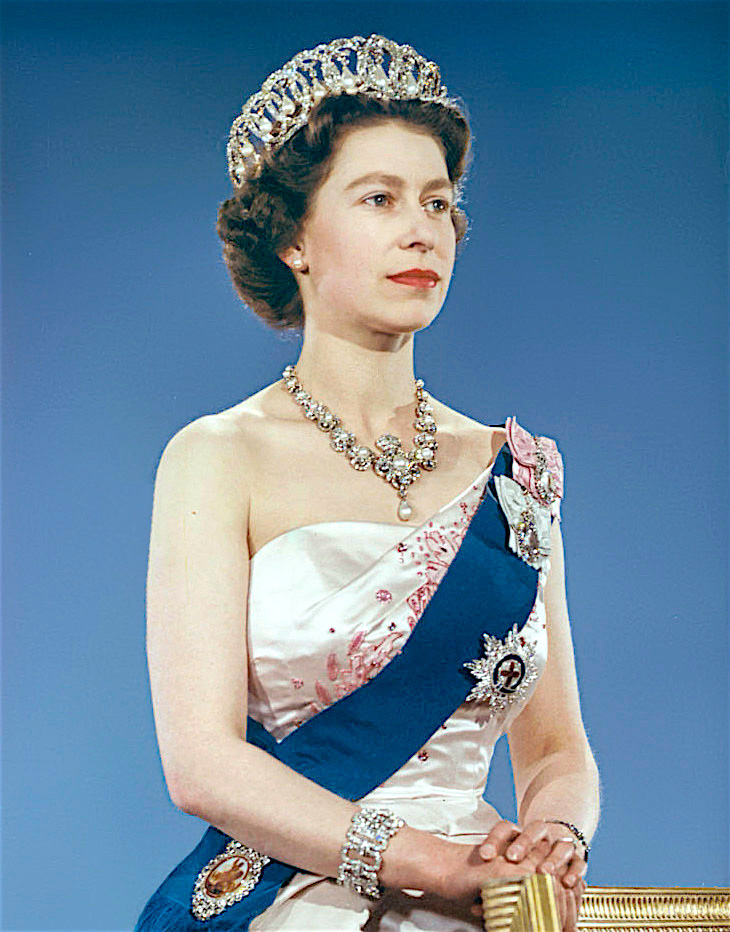 Formal portrait of Queen Elizabeth II wearing the Vladimir Tiara, the Queen Victoria Jubilee Necklace, the blue Garter Riband, Badge and Garter Star and the Royal Family Orders of King George V and King George VI